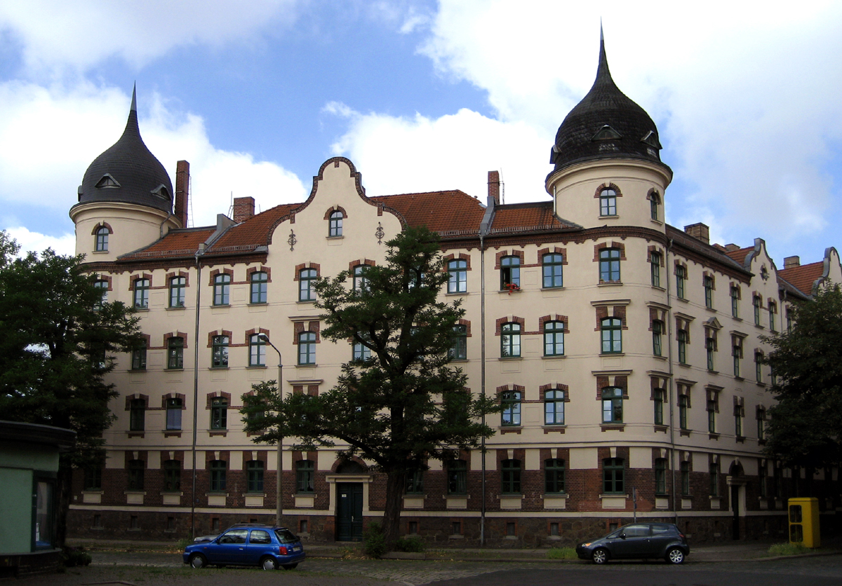 Wohnanlage Meyersche Häuser in Leipzig-Eutritzsch